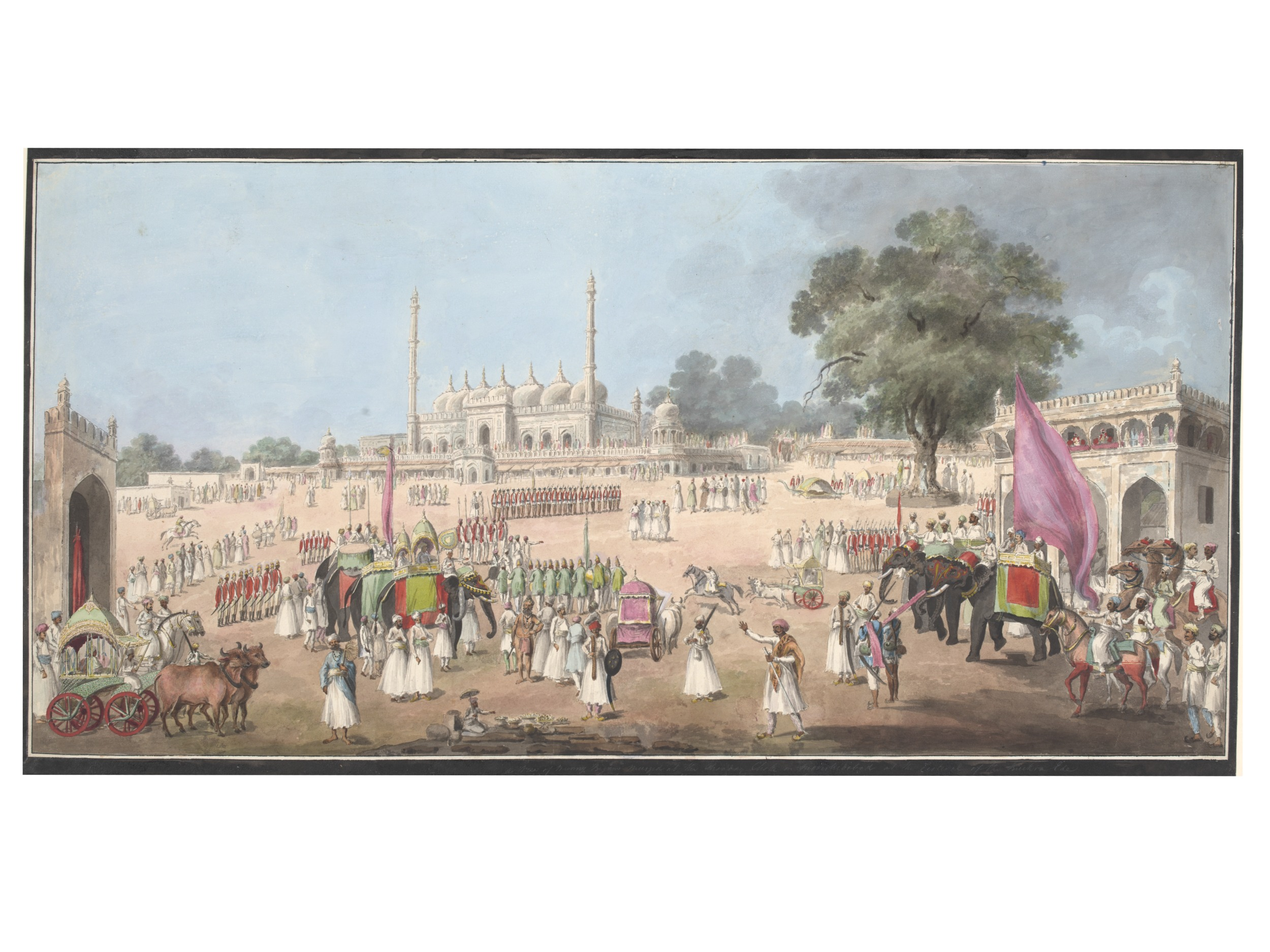 This is one of a group of nine paintings. They depict a durbar (public reception) at the Murshidabad court, and various Hindu and Muslim festivals and religious scenes. A Murshidabad artist copied it, probably from an original oil painting by George Farington. He had worked in Murshidabad from May 1785 until his death there in 1788. Farington's original is lost. Bakr Id, which is depicted here, is a Muslim feast of sacrifice. Muslims celebrate it on the tenth day of the Zilhijj (April / May) in commemoration of Abraham's willingness to sacrifice his only son Ishmael. At the moment of sacrifice, however, God substituted a ram for the youth.